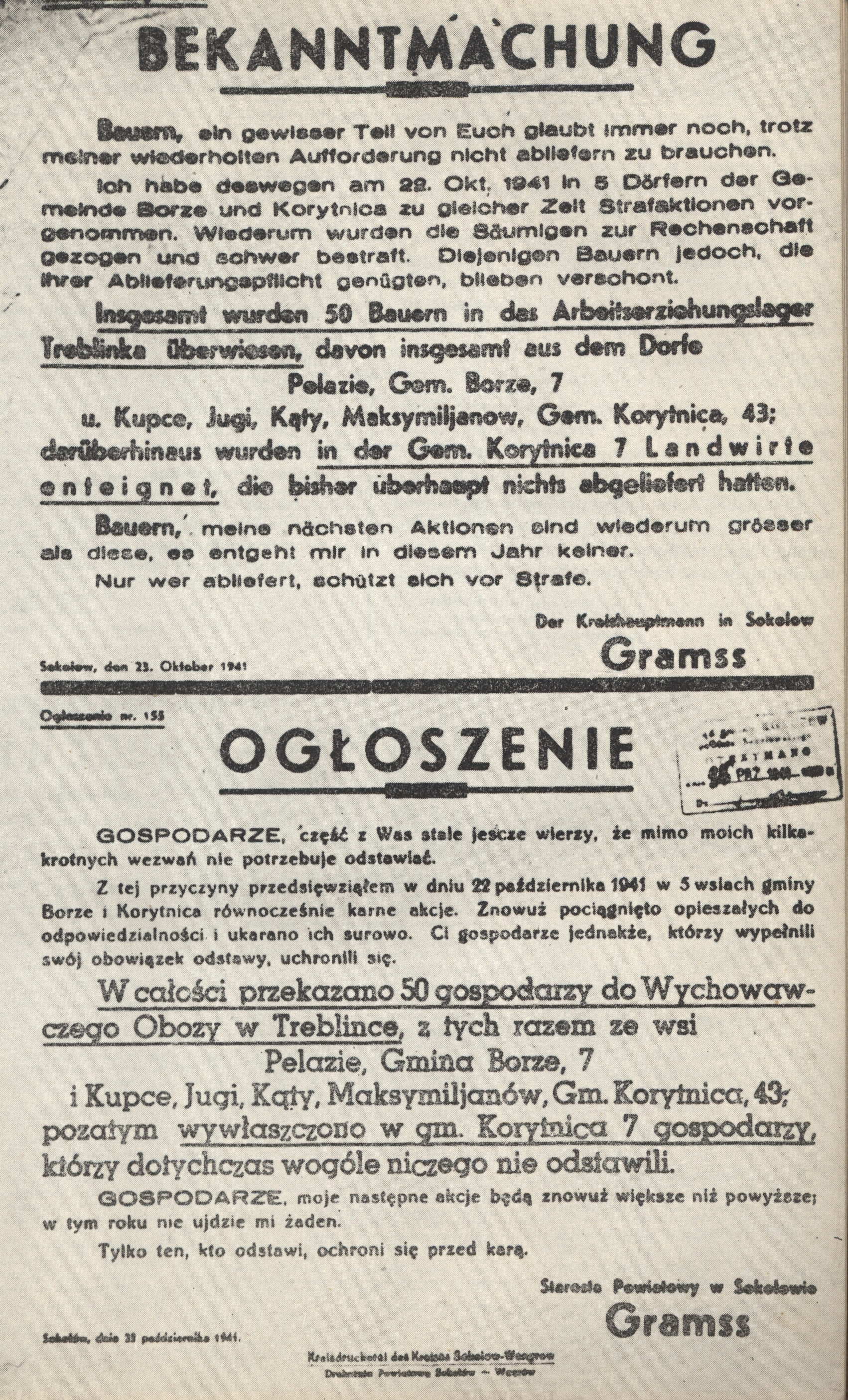 German poster in occupied Poland (dated 23rd October 1941), signed by Ernst Gramss, German Kreishauptman of Sokołów County, announcing the imprisonment of 50 Polish farmers in Treblinka I labour camp.